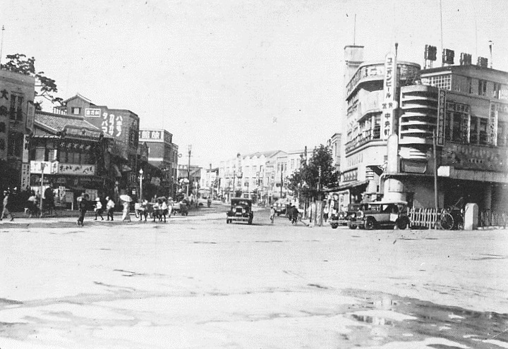 Hamamatsu Hirokoji Dori in 1930s